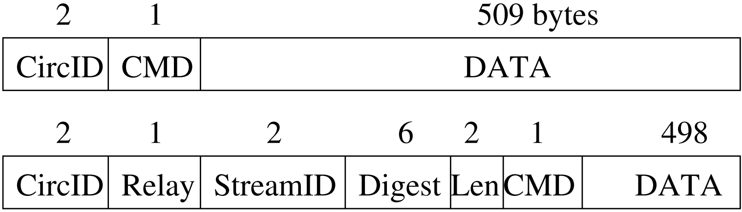 Tor cell data structure from Tor: The Second-Generation Onion Router (2004). Published first for Usenix security conference 2004. Copyright permission info apparently in